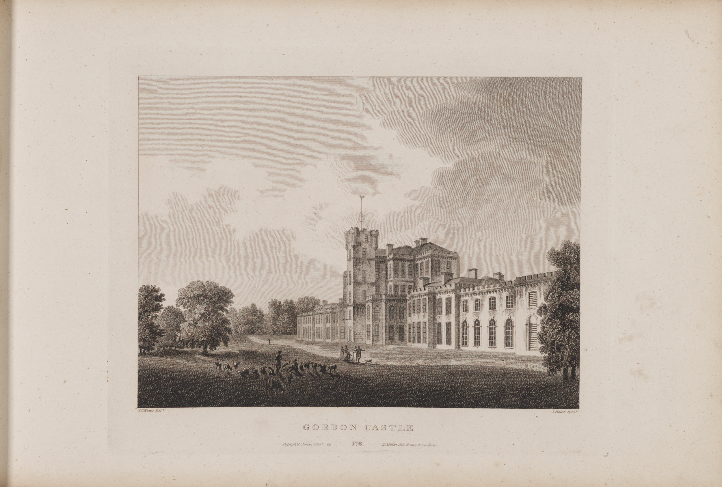 Plate VI/b - John Claude Nattes made drawings of suitable scenes on the spot; etchings are by James Fittler. - John Claude Nattes made drawings of suitable scenes on the spot; etchings are by James Fittler.